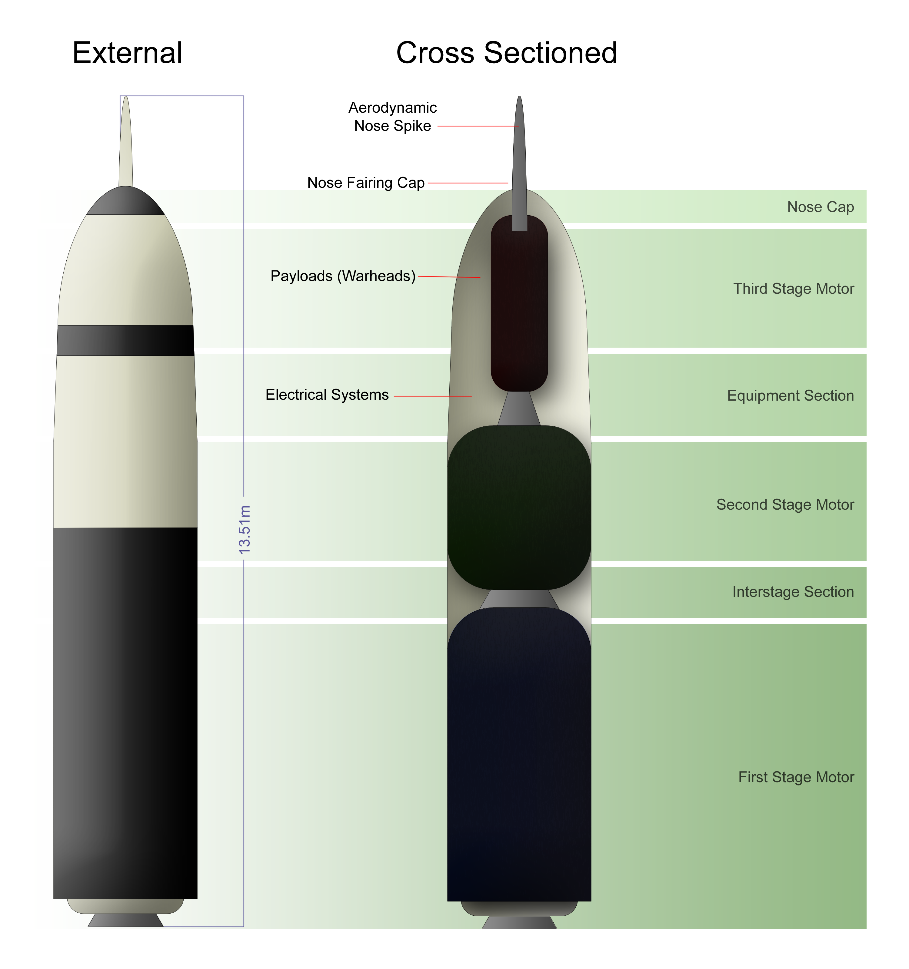 Trident Missile System external and cross sectional views including basic dimensions. This is specifically modelled on a Trident II D5 system. Trident is the US's strategic nuclear deterrent, a submarine launched ballistic nuclear missile.